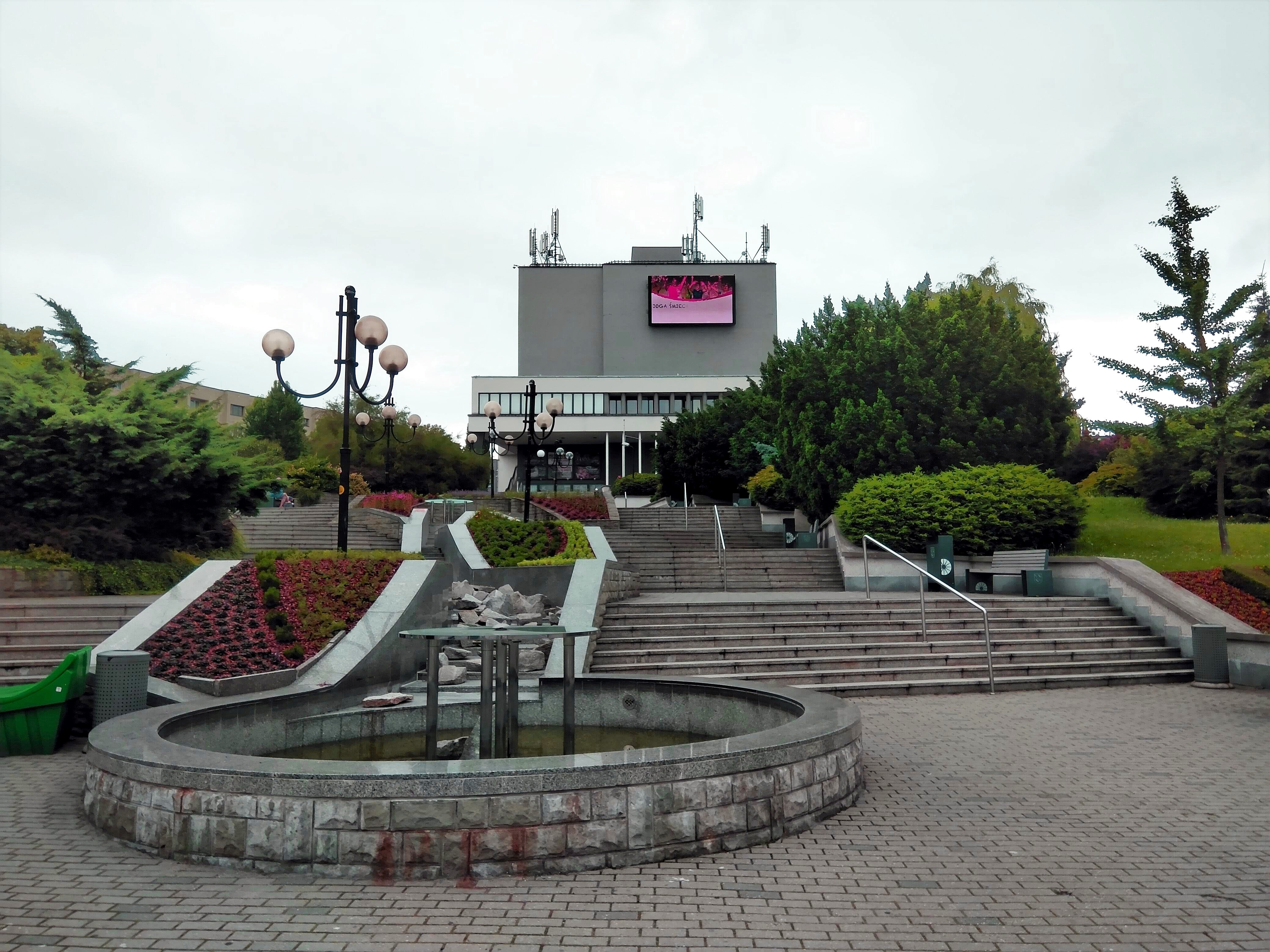 State theater in Rybnik, Upper Silesia, Poland